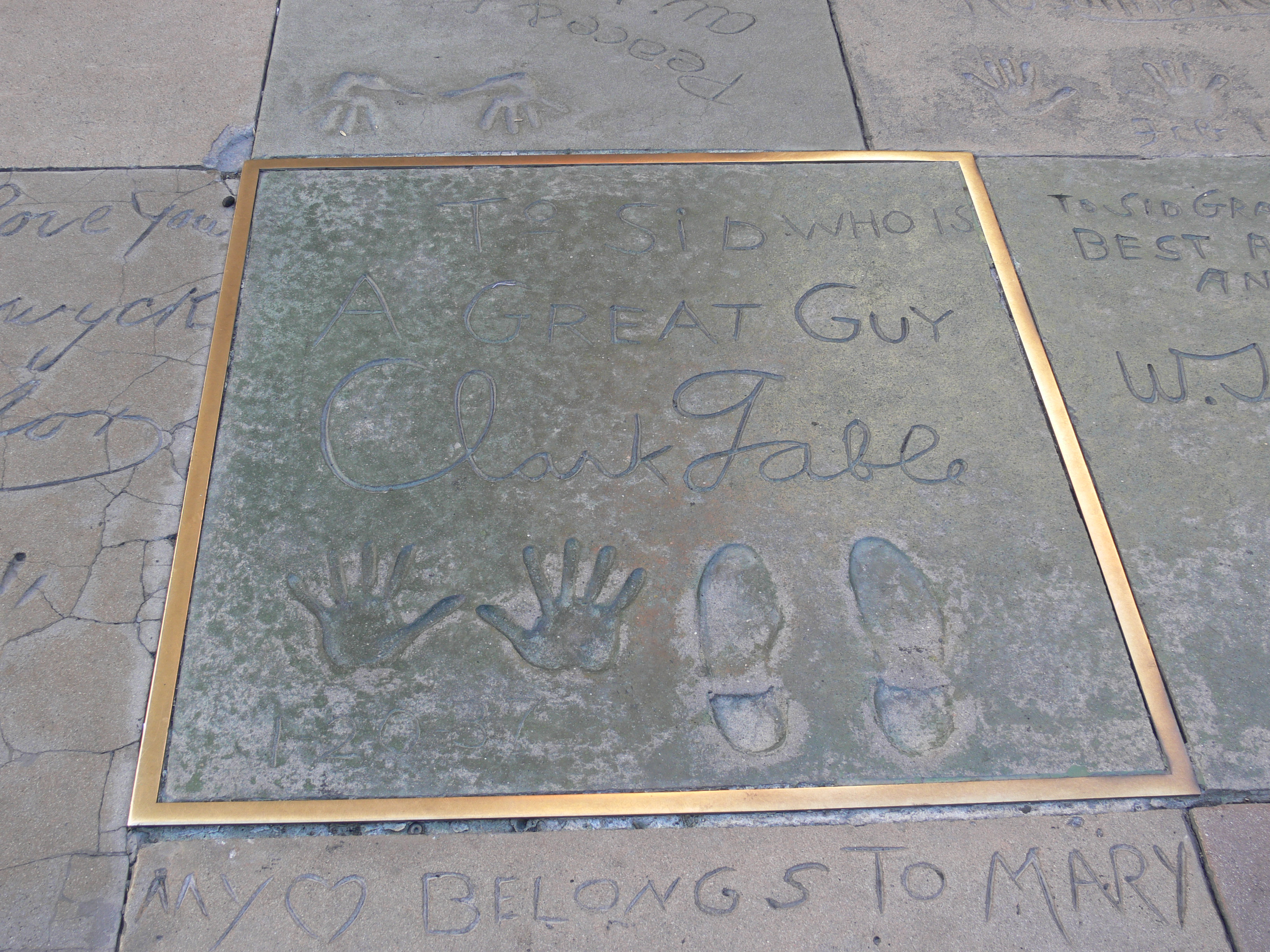 Courtyard of Grauman's Chinese Theatre, Hollywood Boulevard, Los Angeles Clark Gable